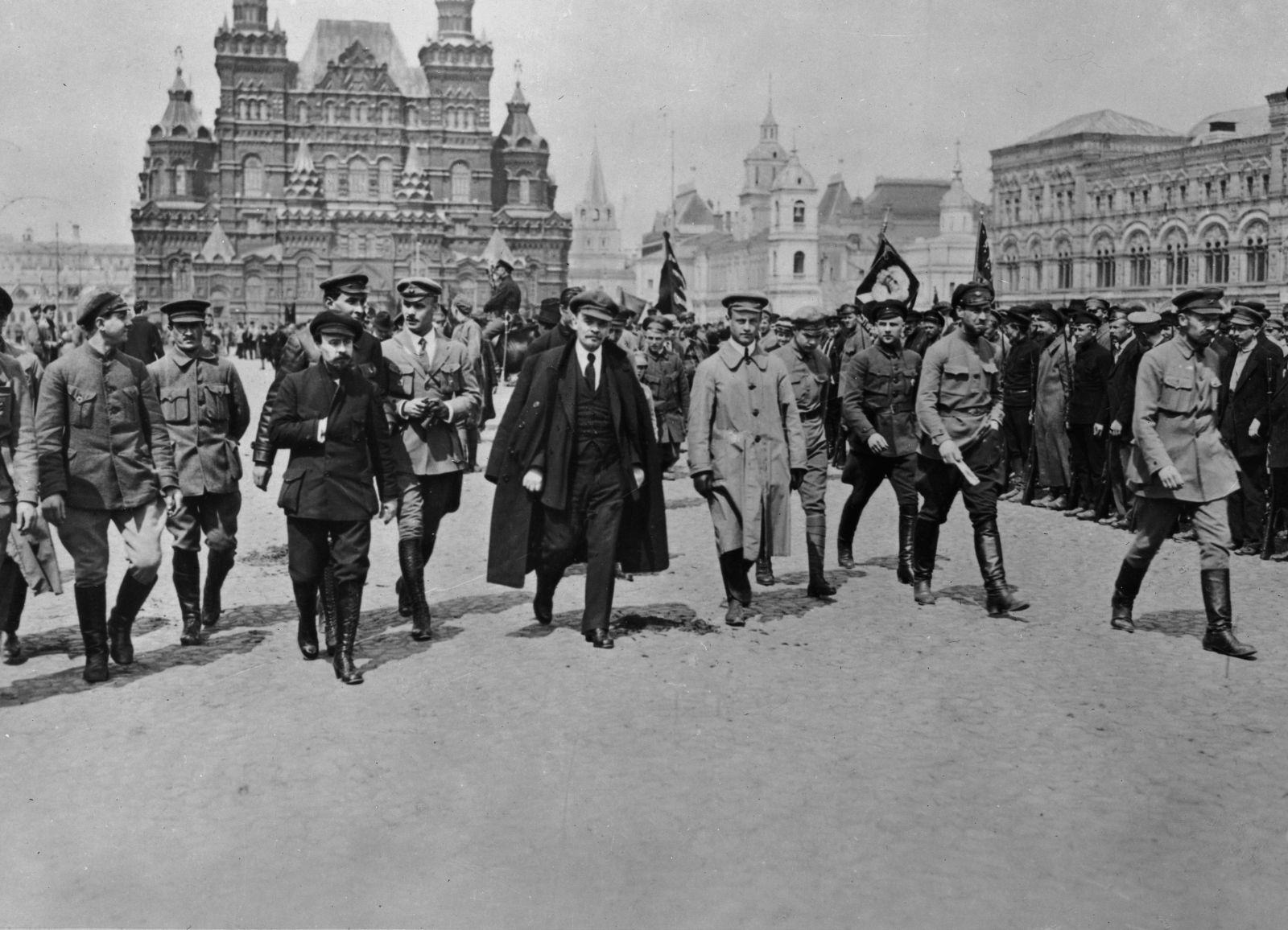 V. I. Lenin (1870 - 1924), Soviet revolutionary leader of proletariat with group of commanders in the Red Square, May 25, 1919. He inspects the Vseobuch troops.